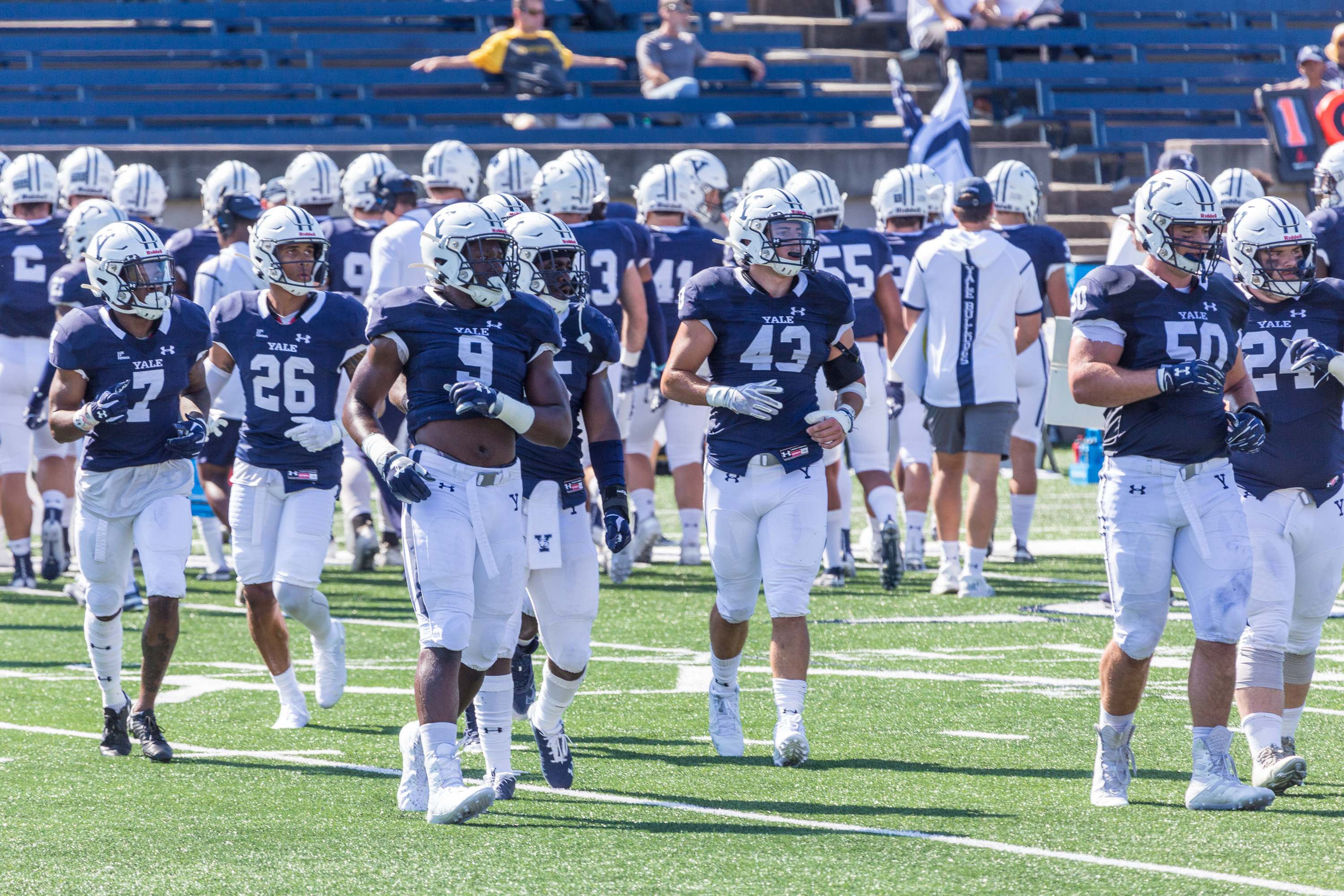 Yale - Cornell Football game at Yale Bowl, Sept 28, 2019.